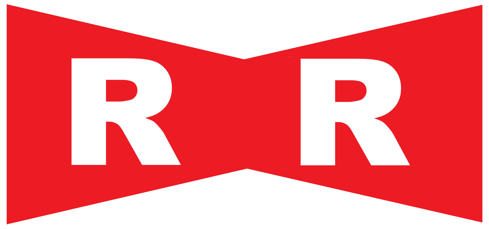 Replica logo of the Red Ribbon Army from the Dragon Ball series